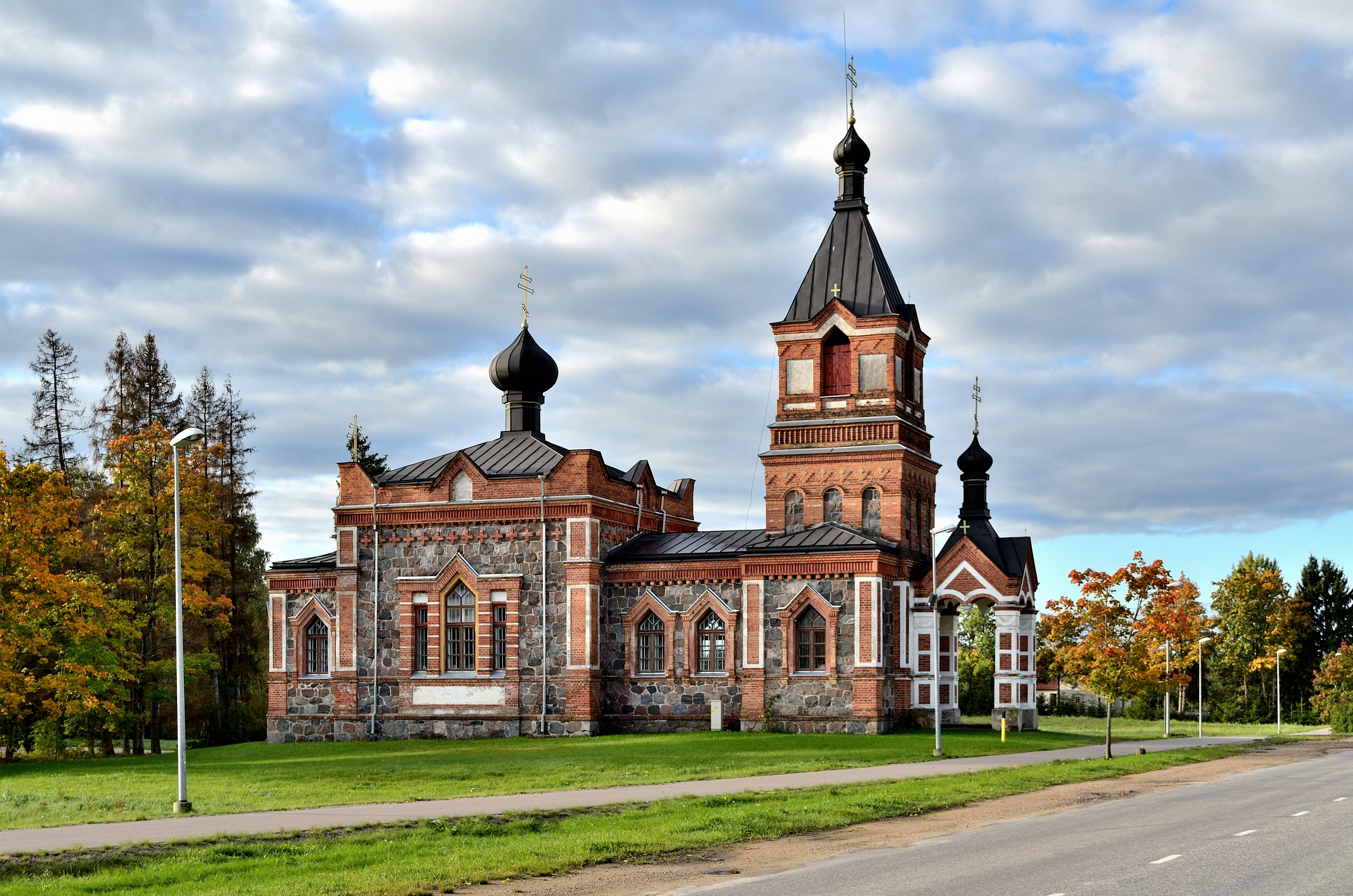 Kohila church, built in 1899-1900 This photograph was taken with a Nikon D3100